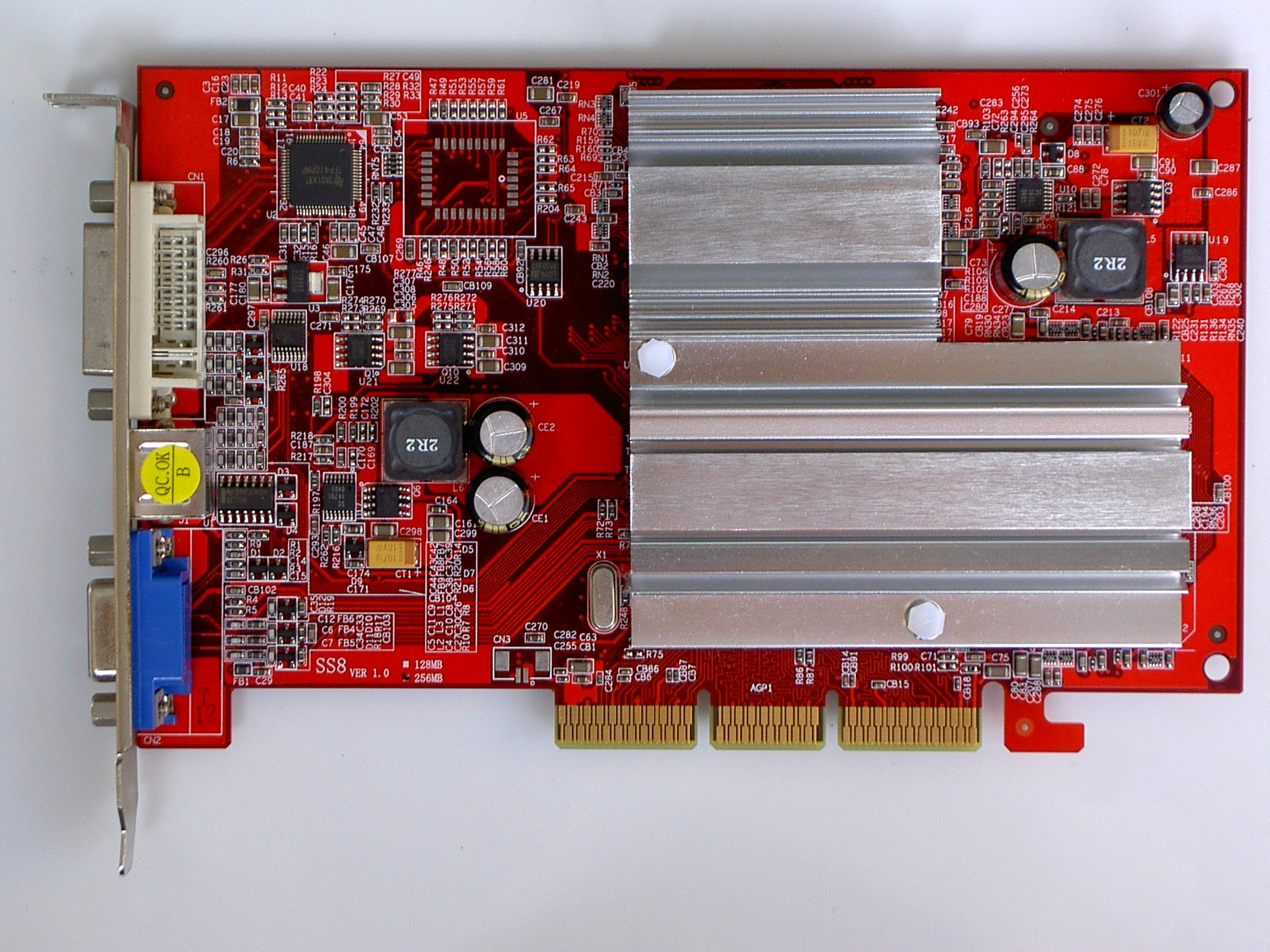 PowerColor SS8-S3L (S3 DeltaChrome S8 256MB AGP Card)